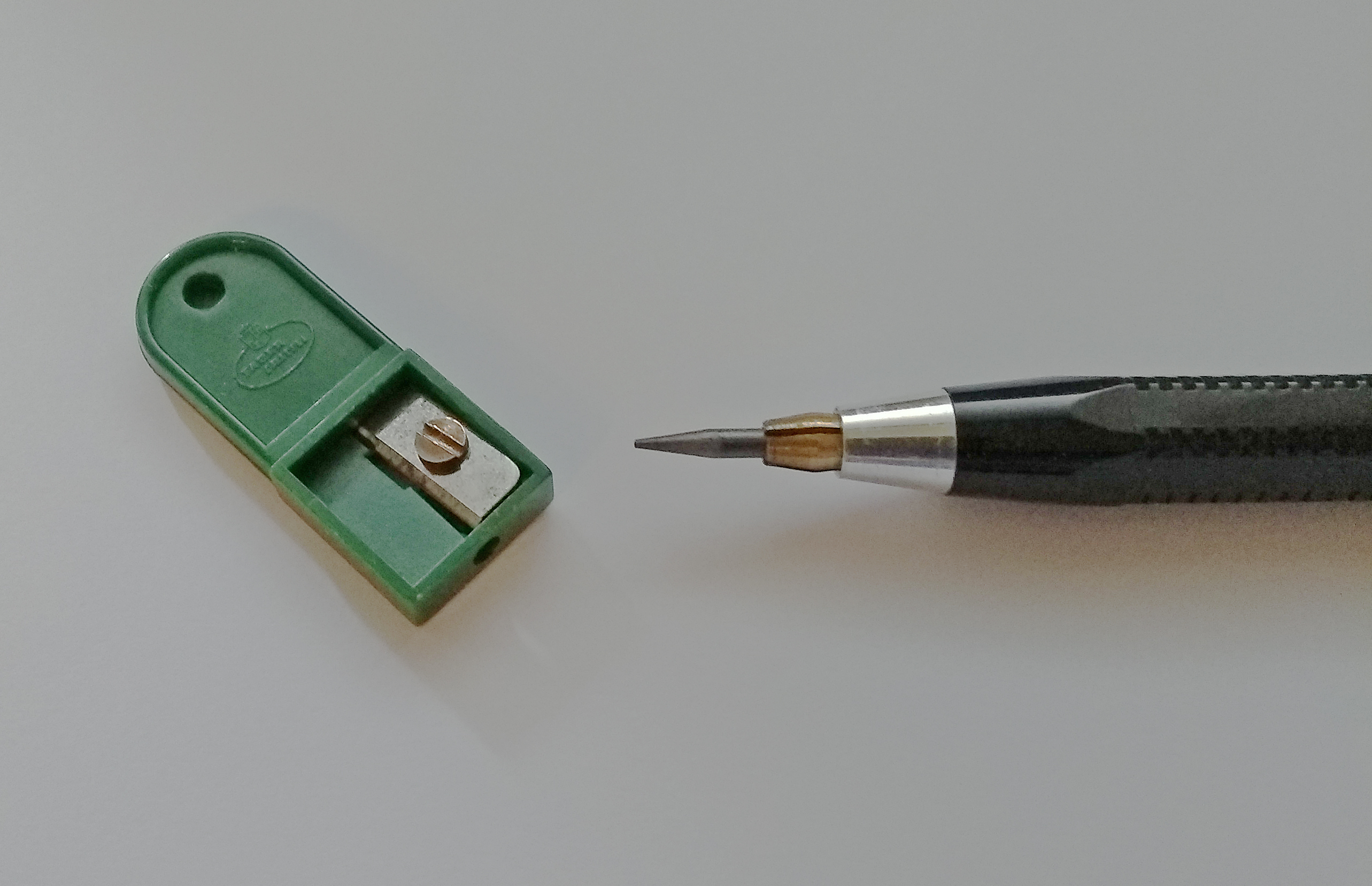 Faber-Castell TK lead sharpener or lead pointer and 2 mm pencil lead in a leadholder